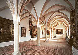 St-Annen-Museum